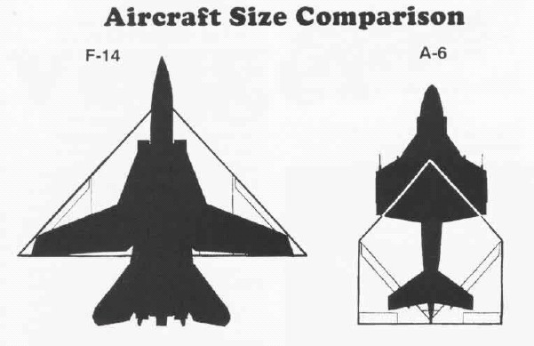 The size of the (never produced) McDonnell Douglas/General Dynamics A-12 Avenger II attack aircraft compared to the Grumman F-14 Tomcat (left) and the Grumman A-6 Intruder (right). The A-12 was planned for the U.S. Navy but canceled in 1991 due to high cost.